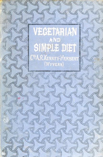 Front cover of Vegetarian and Simple Diet, published in 1908.